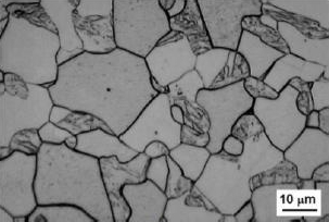 Microstructure of AISI 430 cooled in air after heating to the annealing temperature 950 degree C.